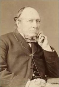 Thomas Stevenson (1818-1887), pioneering lighthouse engineer and father of novelist Robert Louis Stevenson